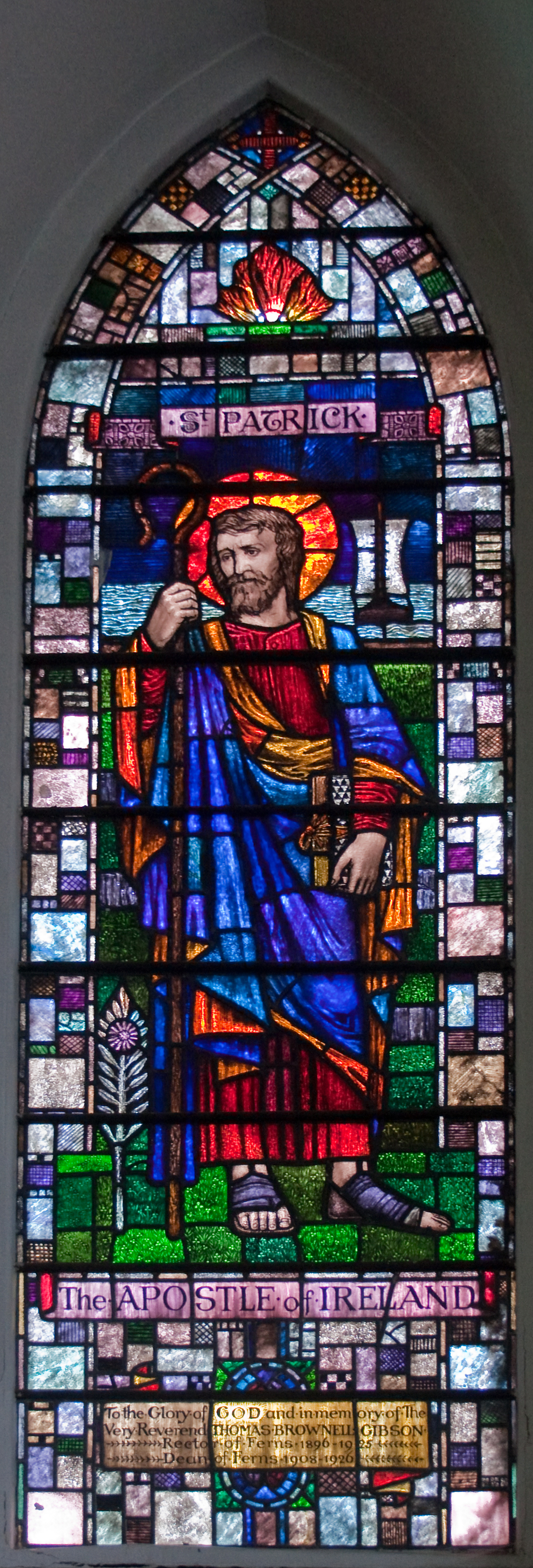 Ferns Cathedral, Ferns, County Wexford, Ireland Stained glass window in the south wall designed by Catherine O'Brien (also named Kathleen or Kitty, 1881–1963) of An Túr Gloin (Tower of Glass). This window was installed in 1931 in memory of Thomas Brownell Gibson. Its inscription reads: To the Glory of God and in memory of The Very Reverend Thomas Brownell Gibson, Rector of Ferns, 1896–1925, Dean of Ferns, 1908–1926. Catherine O'Brien (1881–1963) Alternative names Kathleen O'Brien, Kitty O'BrienDescriptionIrish stained-glass artist and mosaic artistmember of An Túr Gloin (Tower of Glass), DublinDate of birth/death 19 June 1881 18 July 1963 Location of birth/death Spancilhill, near Ennis, County Clare, Ireland Sir Patrick Dun's HospitalWork period1904–1963Work location Dublin Authority control : Q17276640 creator QS:P170,Q17276640